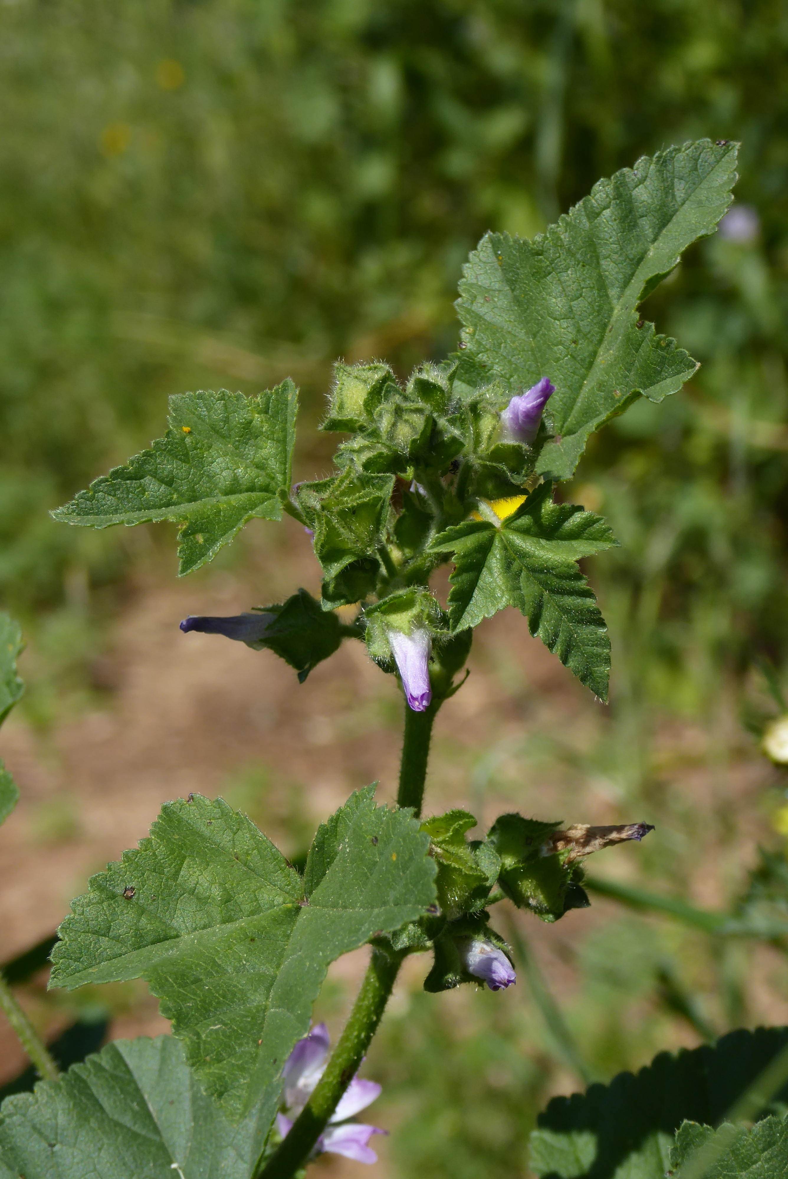 Savion blossoms